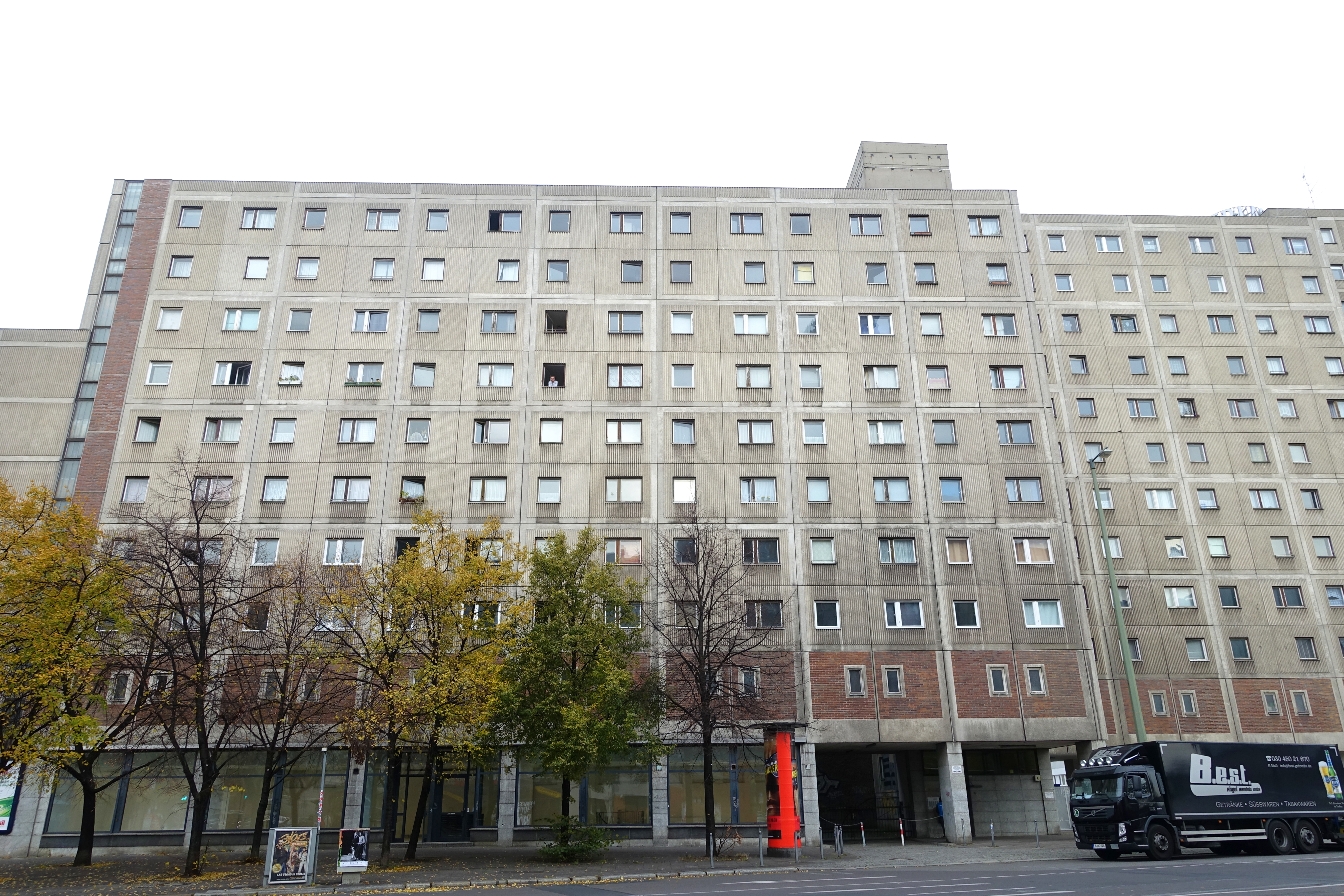 Apartment block - Berlin, Germany.